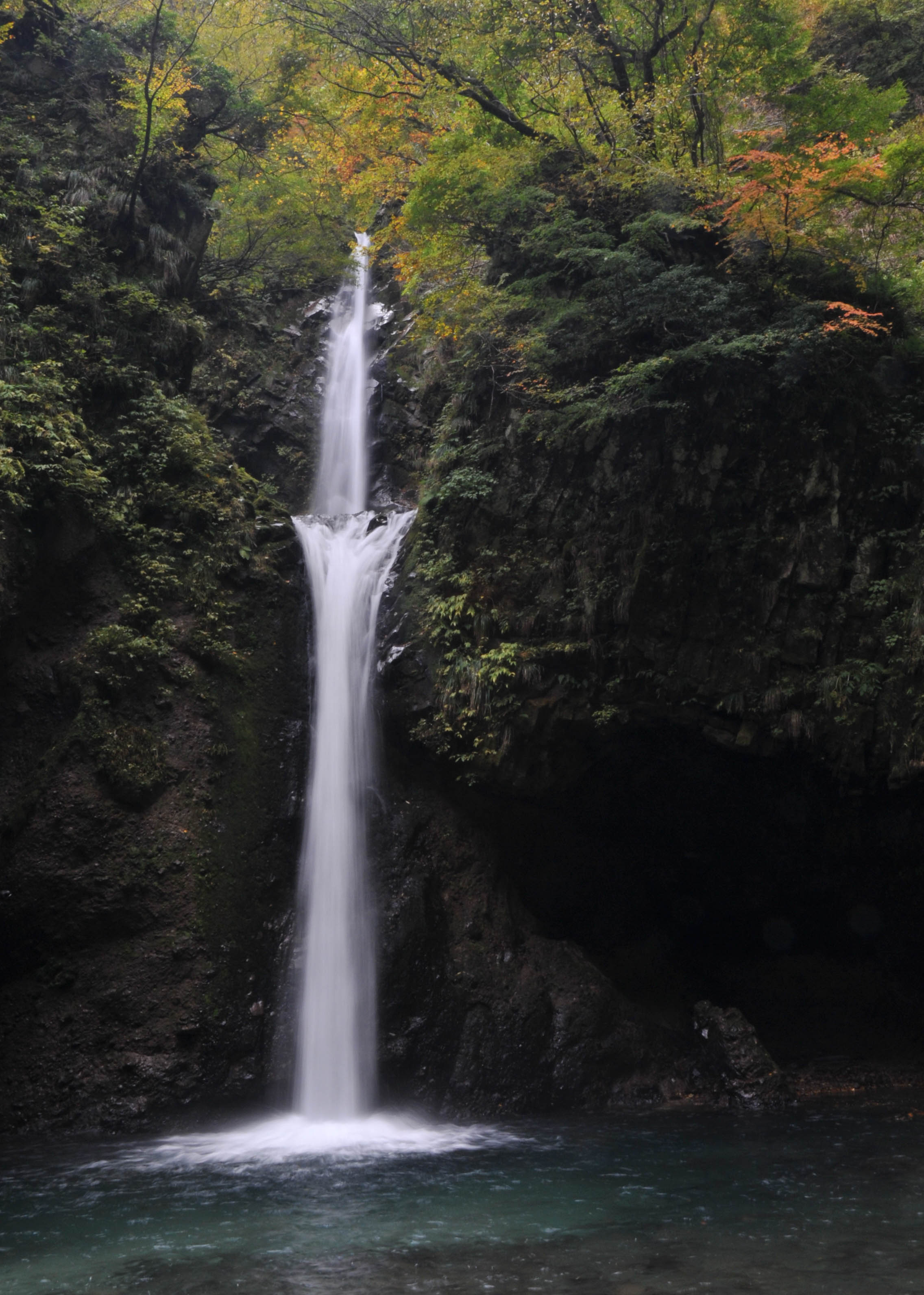 Daisen falls in autumn